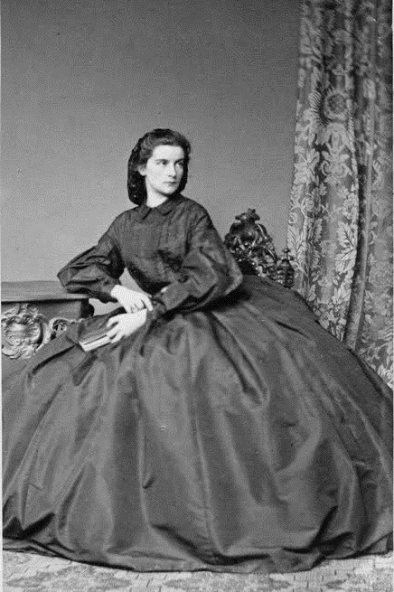 Maria Sophie of Bavaria, 1860s